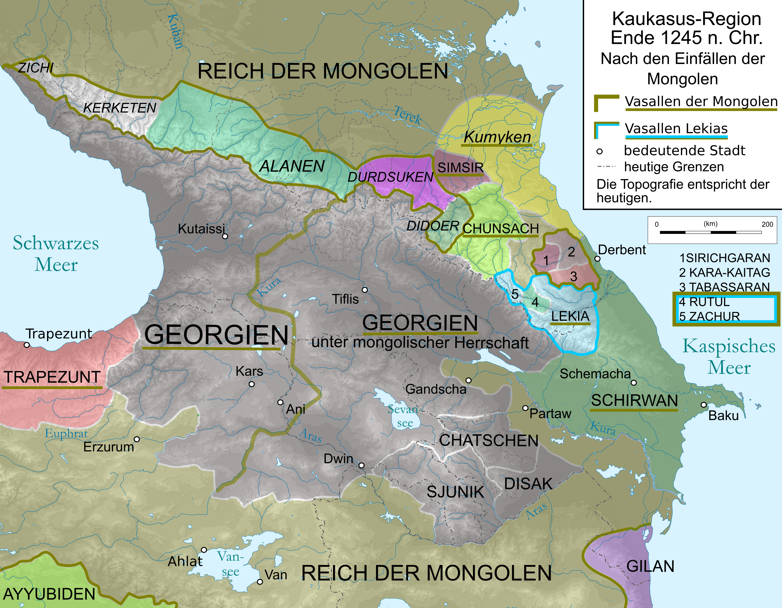 Map of Caucasus Region around 1380 in German.